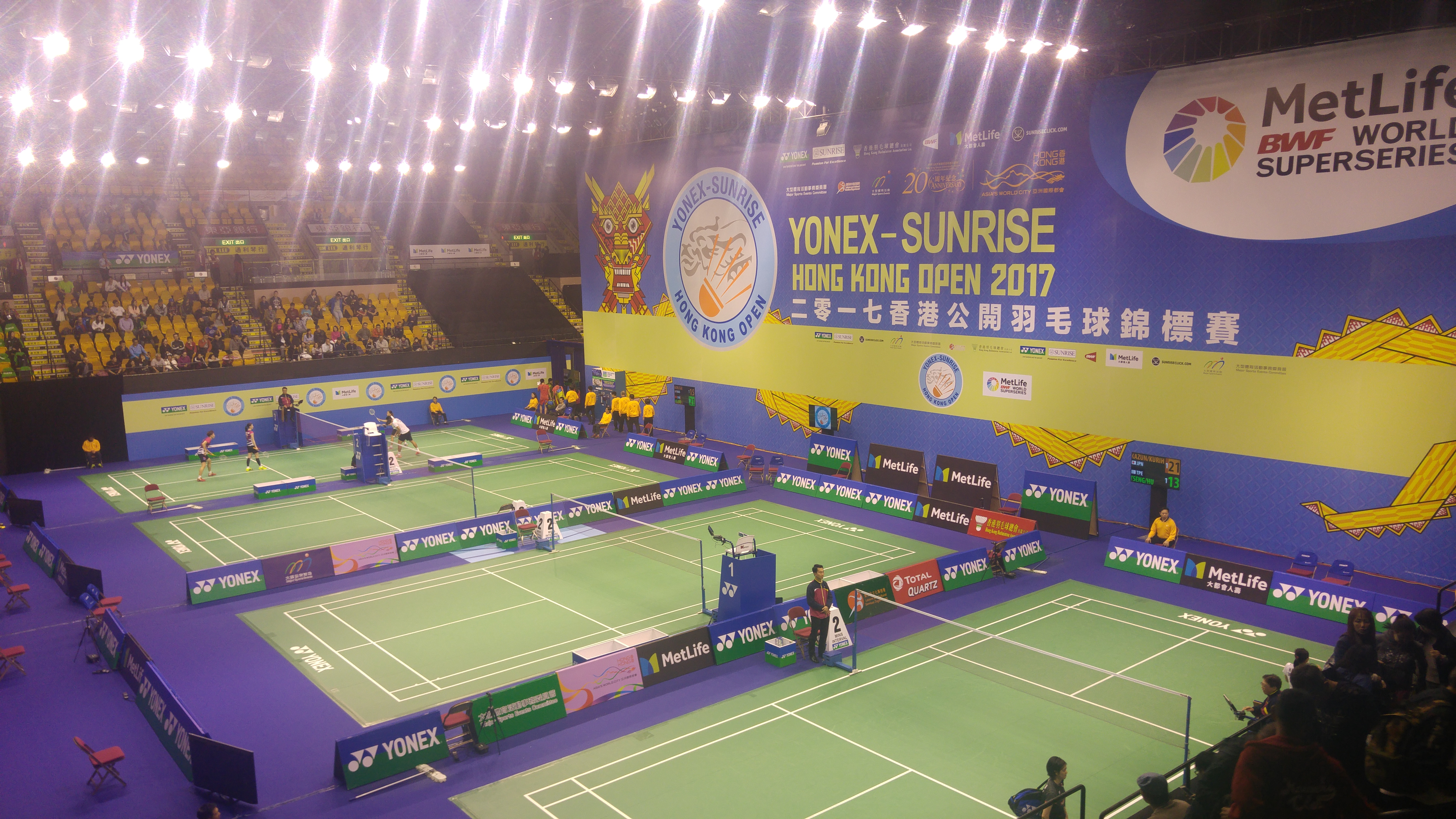 Hong Kong Open Badminton Championships 2017 - The courts and setting in Hong Kong Coliseum 中文（香港）: 2017年香港公開羽毛球錦標賽主場館 - 香港體育館內的球場布置